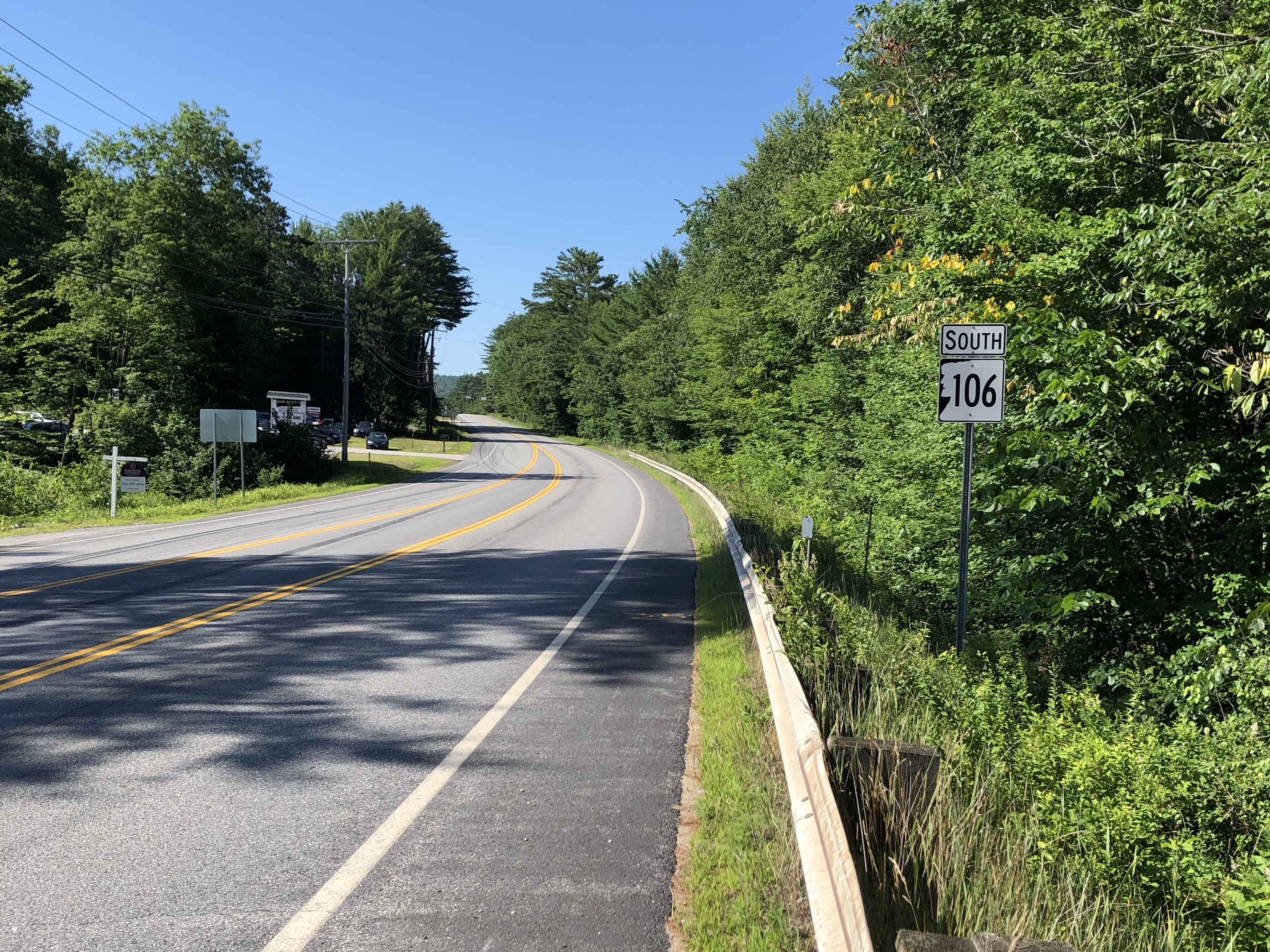 New Hampshire Route 106 in the town of Belmont, New Hampshire